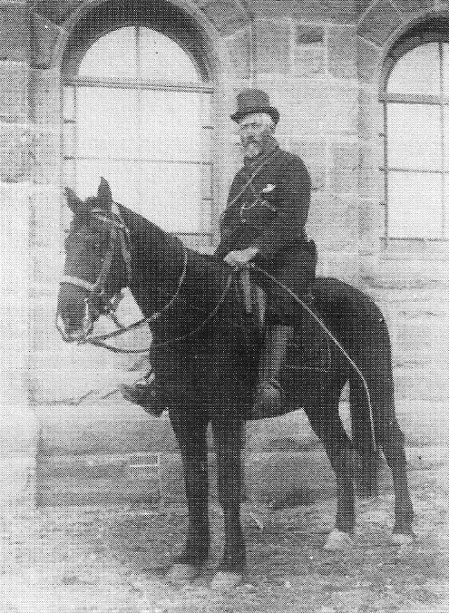 General CC Froneman on Commando.